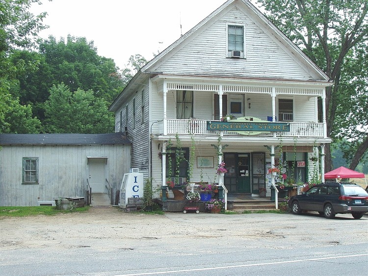 Mansfield General Store, Mansfield, CT. Part of the Mansfield Center Historic District.